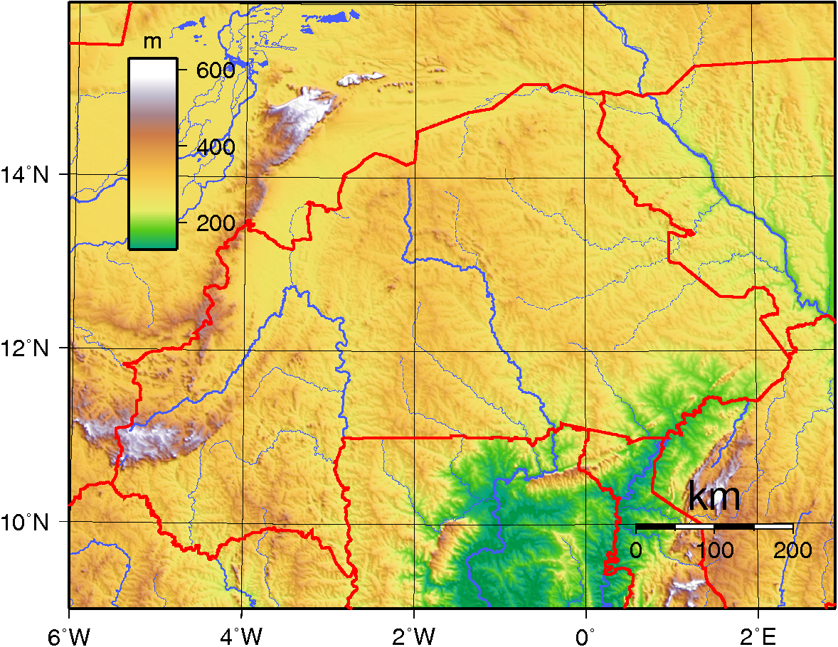 Topographic map of Burkina Faso. Created with GMT from public domain GLOBE data.